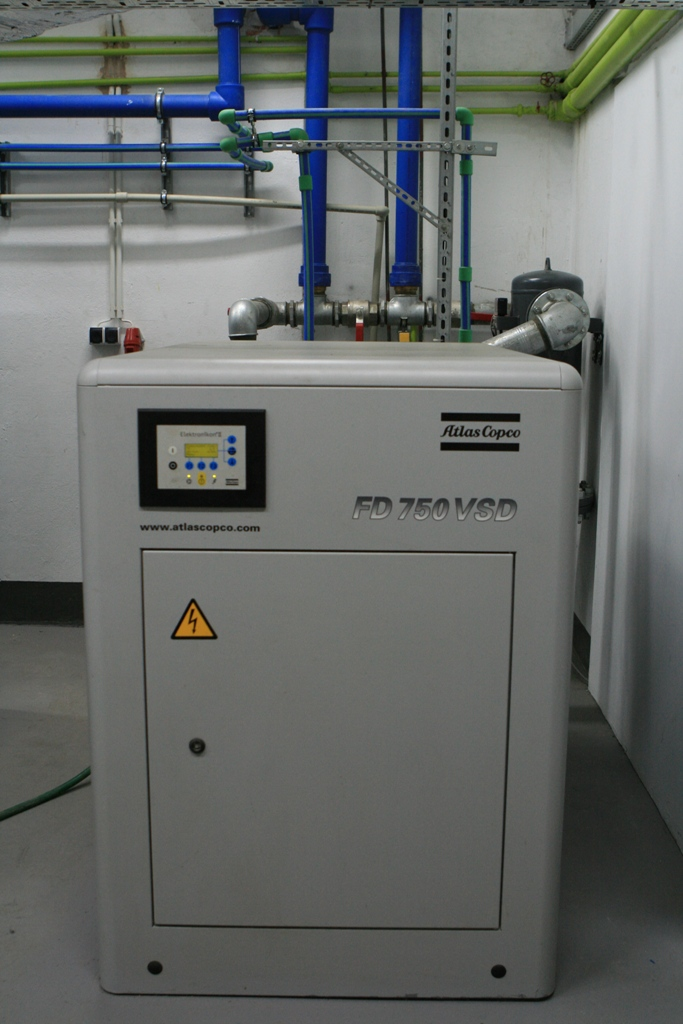 Refrigerant dryer